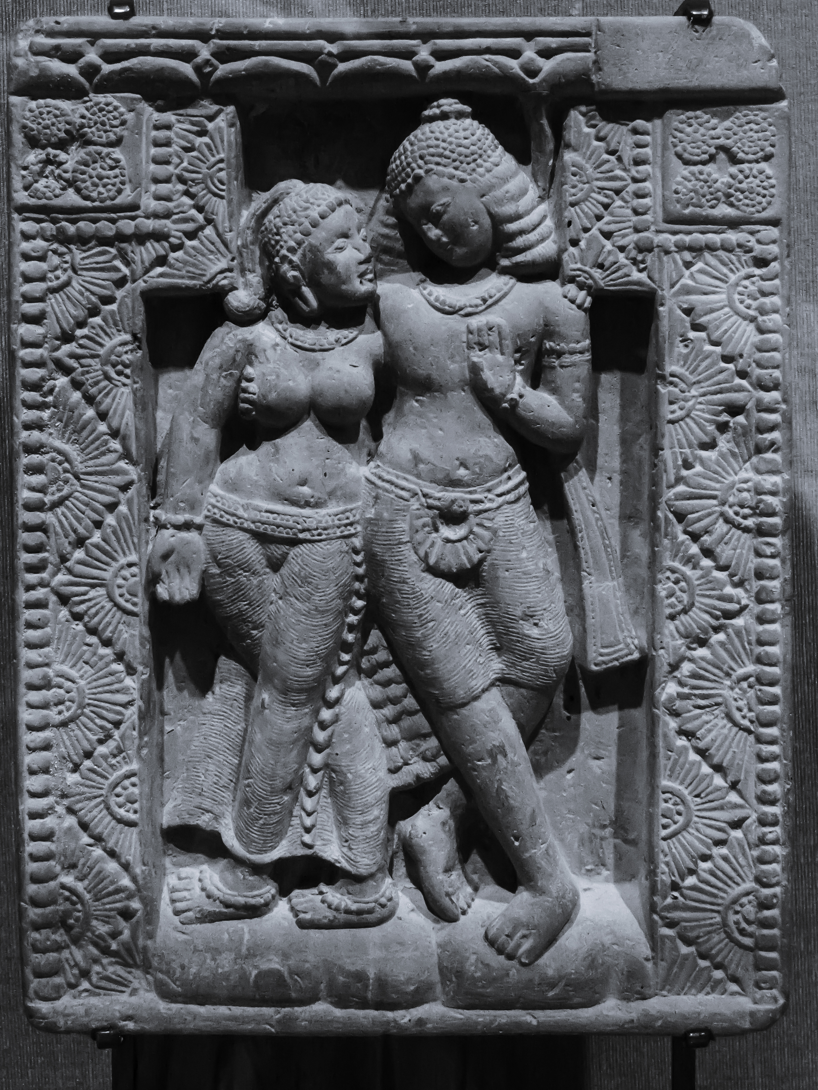 A panel from a Hindu temple now at the Honolulu Museum of Art in Honolulu, Hawaii. India, Gupta period, 5th century A.D. Terracotta From the curation card: Mithuna are amorous couples who serve as symbols of auspiciousness and fecundity. Figures of loving couples have a trans-religious nature, as examples can be seen throughout Indian artistic traditions. Plaques depicting mithuna are frequently found at entrances to shrines.